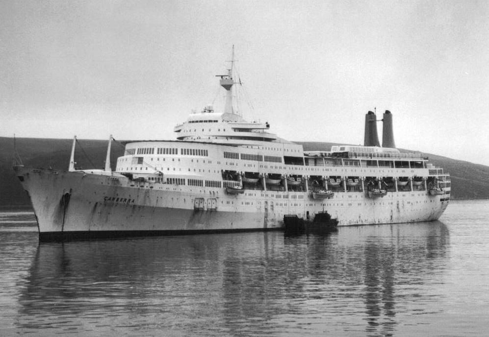 RMS Canberra in San Carlos Water, May 1982. I created this image and hereby release it into the public domain. Category:Images of ships Captioned As {}